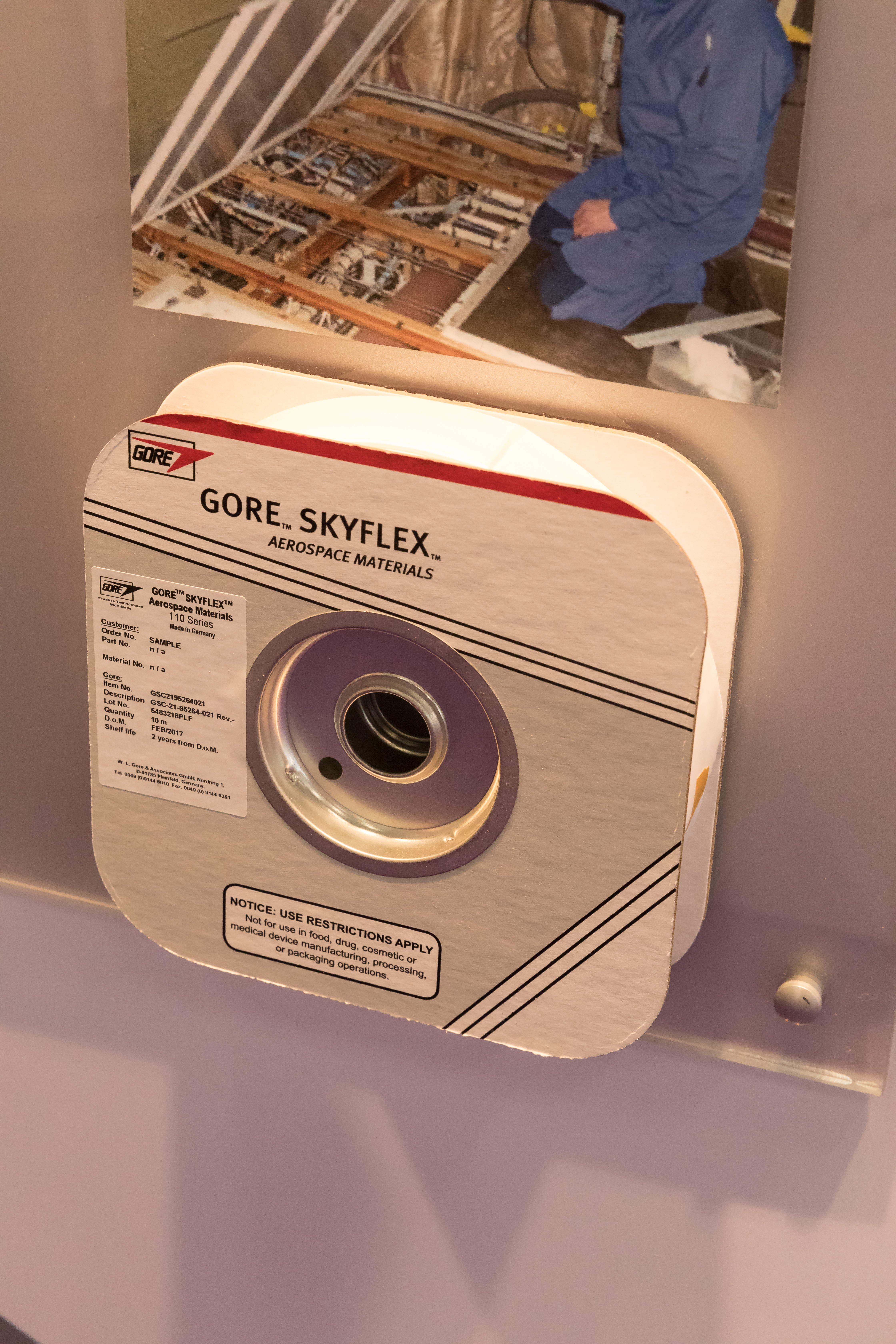 Passenger Experience Week 2018, Hamburg